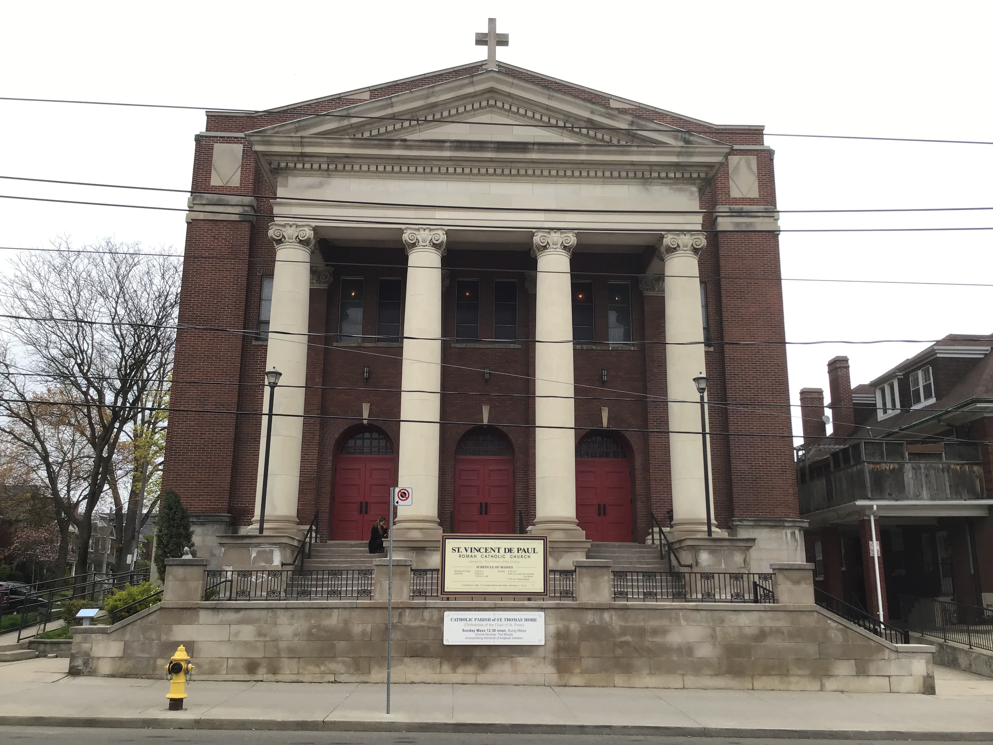 The exterior of St Vincent de Paul Church, Toronto. 2020/05/12